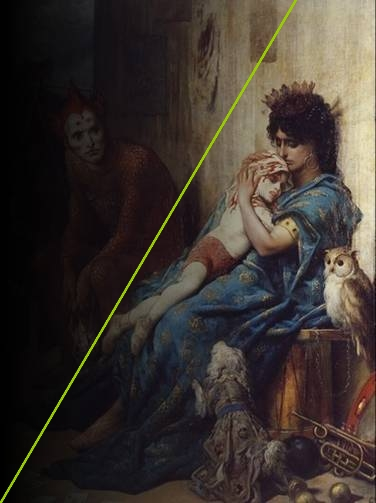 Gustave Doré (french painter), Les Saltimbanques [Magicians], 1874. Location : Musée d'art Roger-Quilliot, Clermont-Ferrand. Type : oil painting. Dimensions : 224 x 184 cm (88 X 72 in).